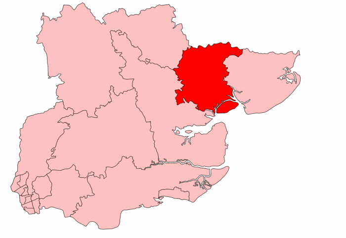 A map of Colchester constituency within Essex, as it existed from 1918 to 1950.